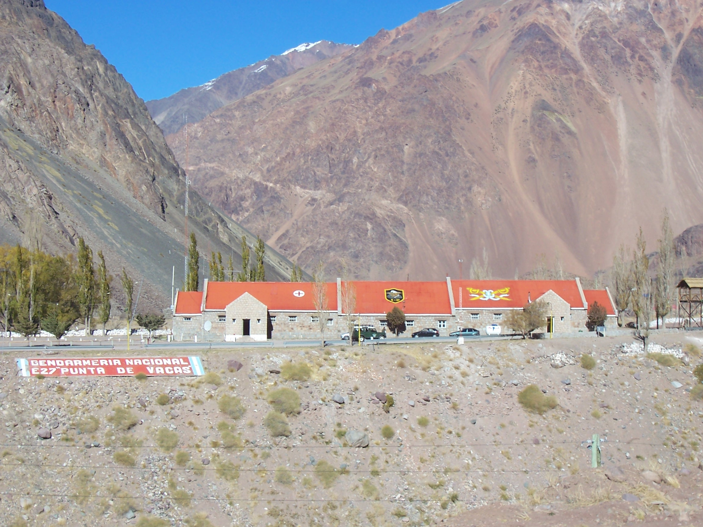 The National Gendarmerie Station at Punta de Vacas, Mendoza Province, Argentina.